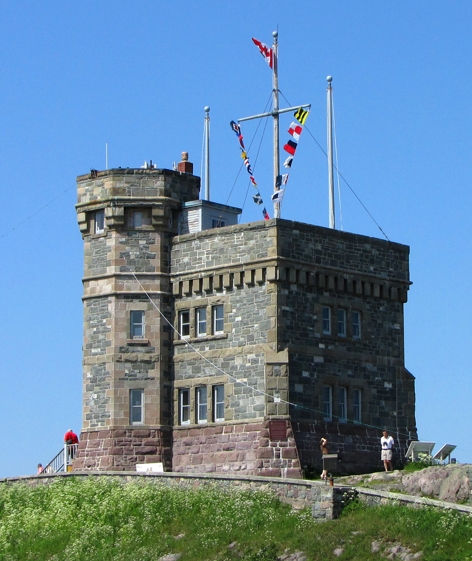 Cabot Tower, Signal Hill Park, St. John's, Newfoundland and Labrador